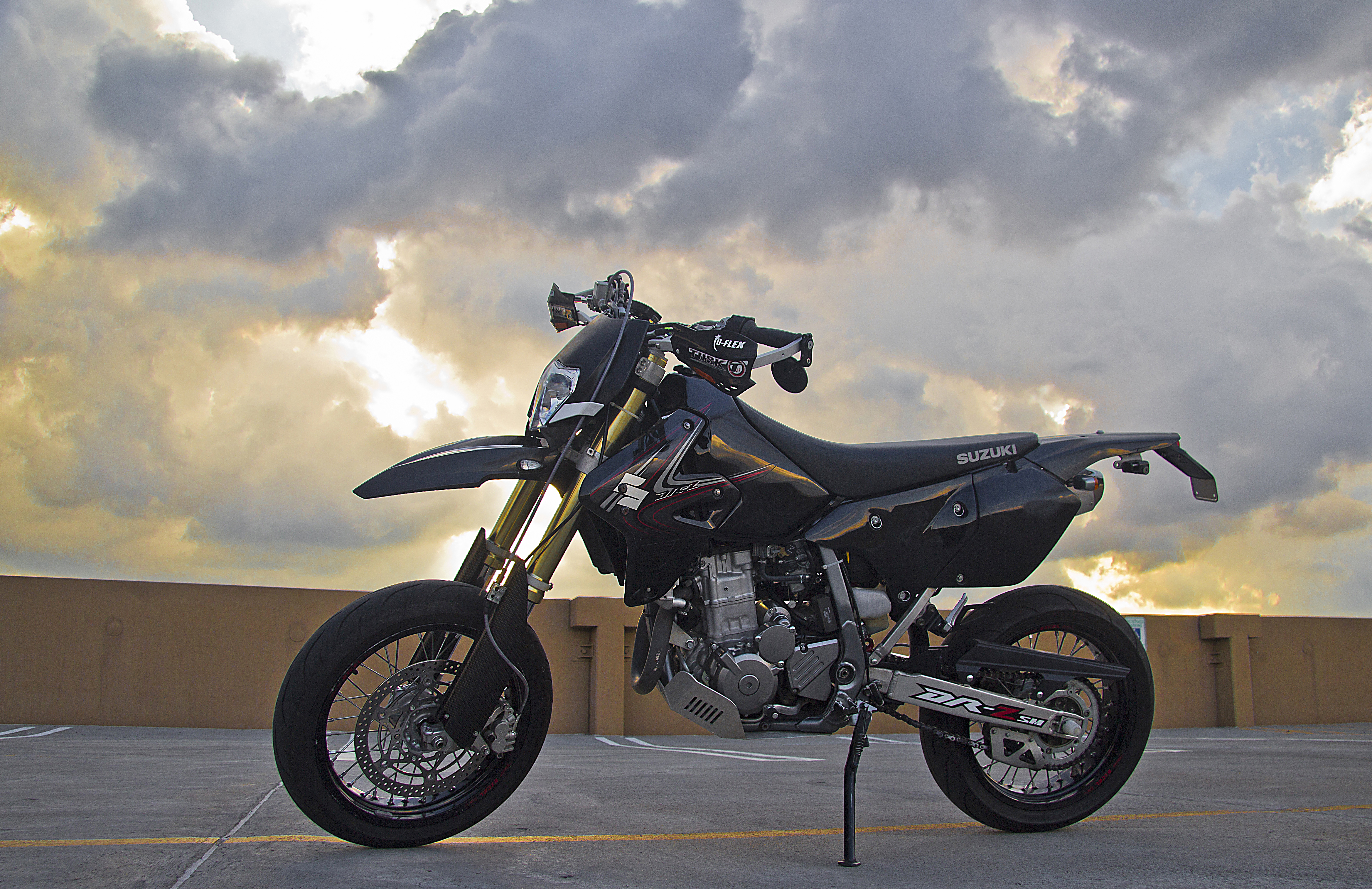 A modified 2007 Suzuki DRZ-400SM Supermoto